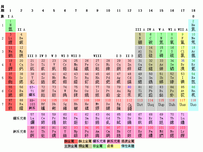 This is a periodic table,Author:w:zh:User:Sl